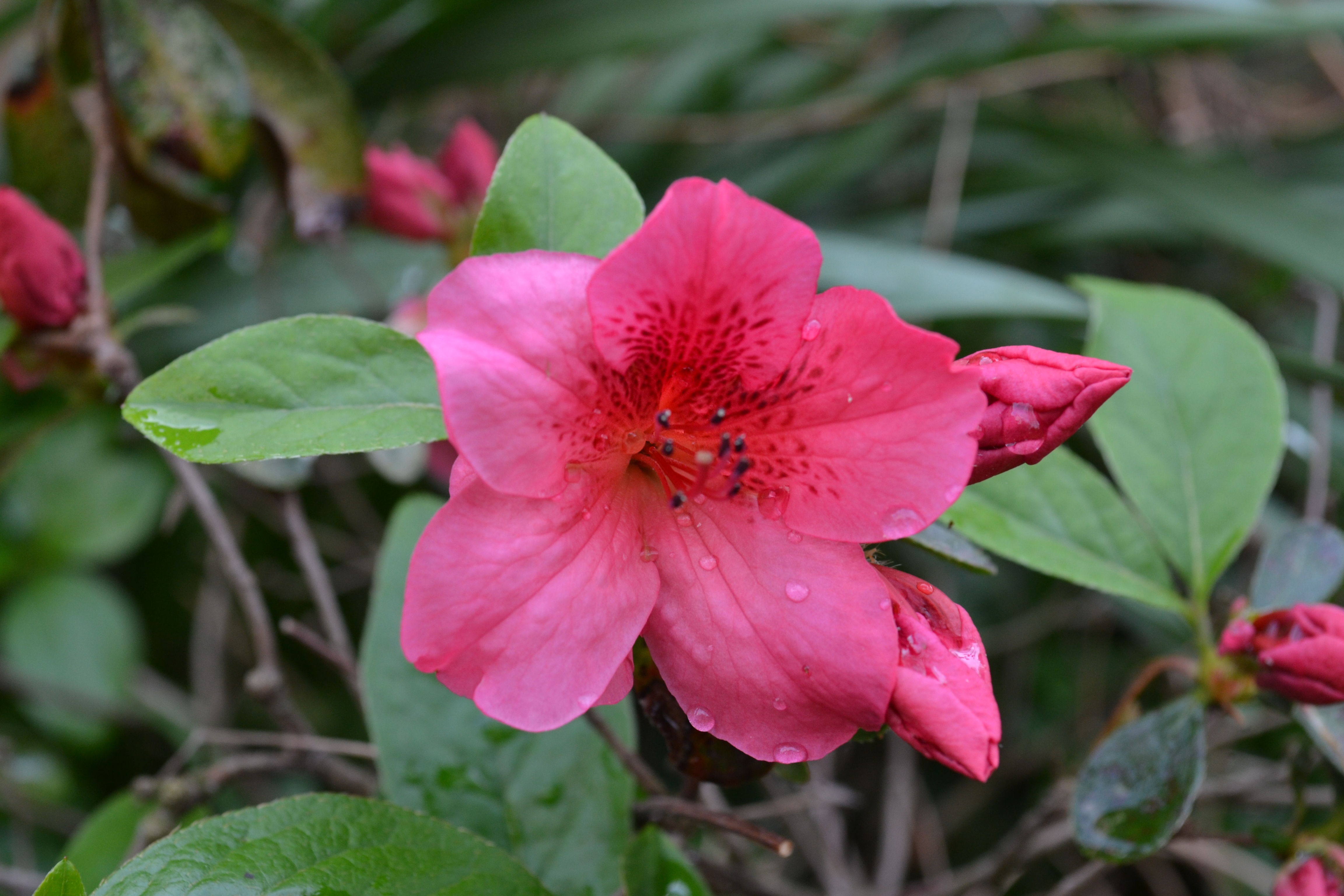 Another azalea bush is flowering - I love this color.